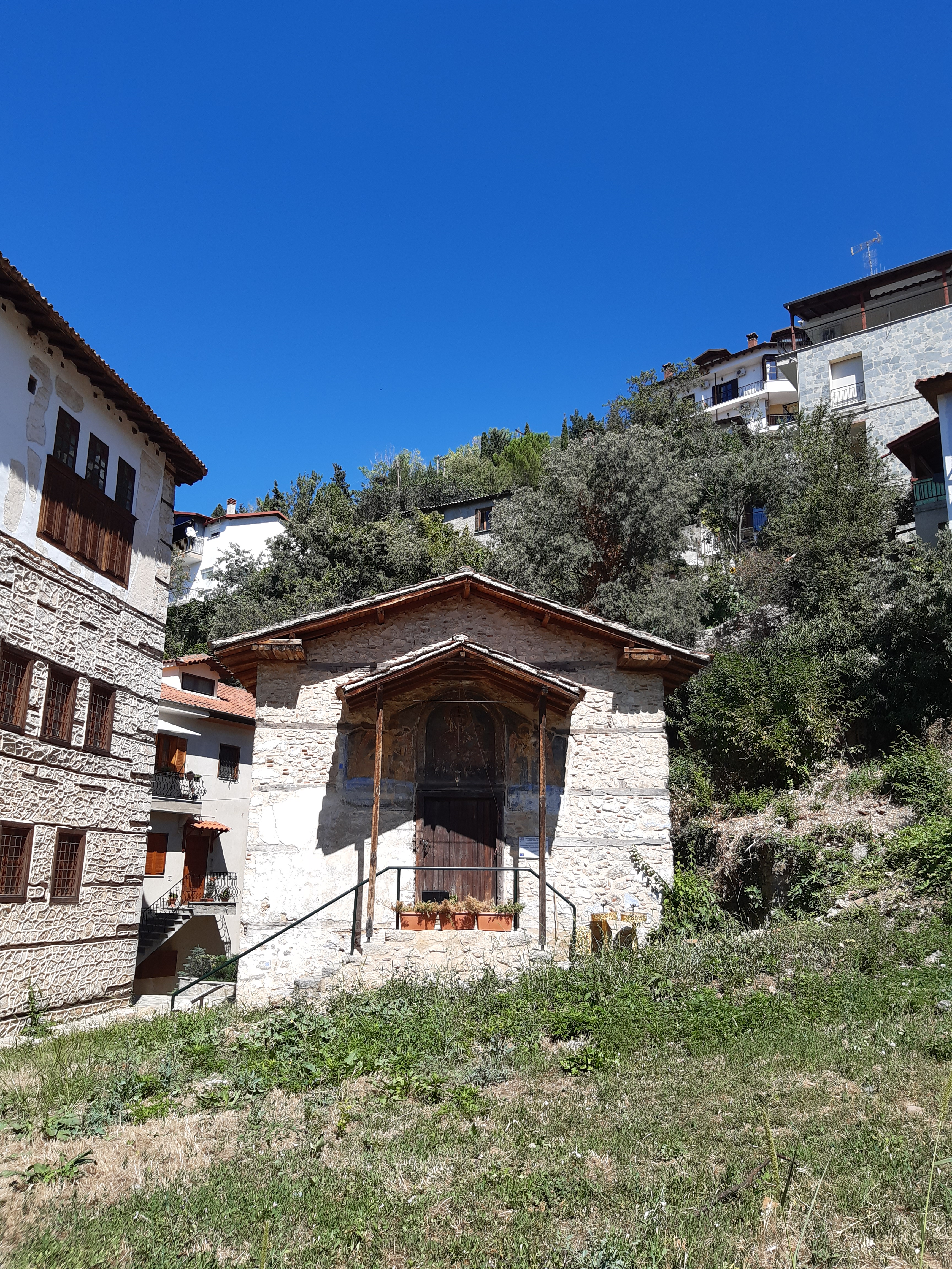 Presentation of Mary Church, Kastoria